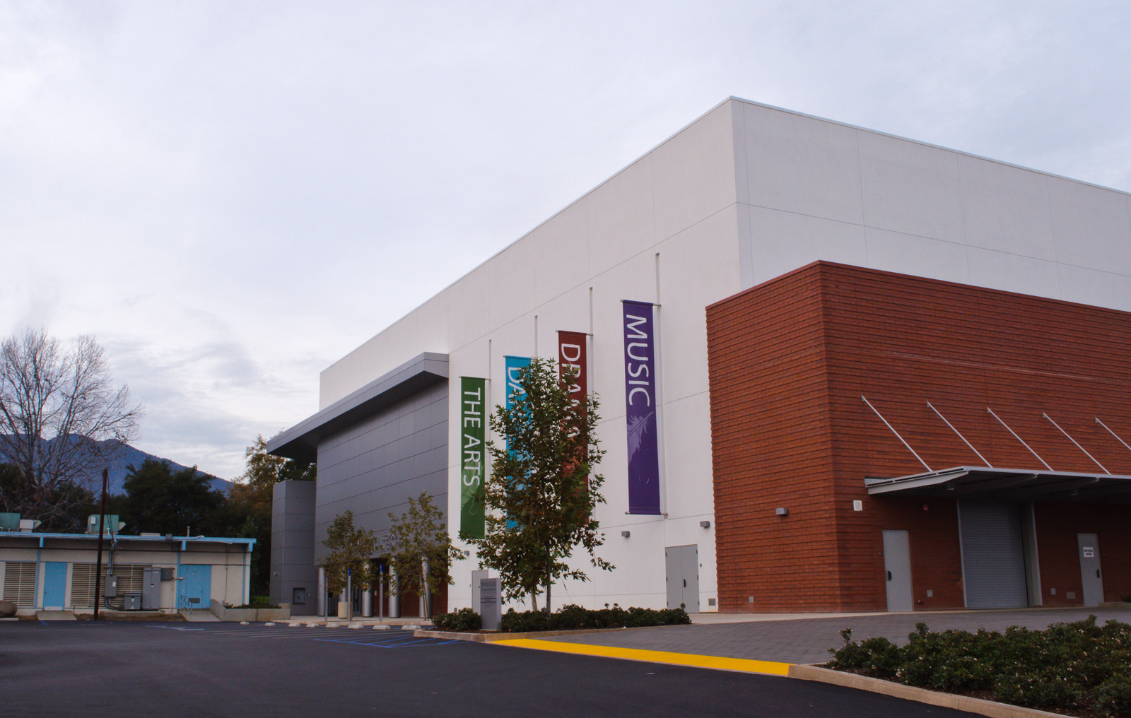 Doing a Christmas afternoon photo session on the campus of Arcadia High School. Arcadia is located just east of Pasadena, and 20 miles northeast of Los Angeles; thanks to Arcadia being home to Santa Anita Racetrack, Arcadia's public schools are better funded than in the rest of California, and Arcadia has developed a legendary status among wealthy Asian immigrants (especially those from Taiwan) as a result. Having once lived in Arcadia myself, it's always nice to come back for a new look. The Arcadia High School Performing Arts Center is a brand-new building for 2012, and would feel right at home even on a college campus. It is one of several buildings funded by the 2006 bond measure, including the Student Services Building, the Lecture Hall, and the Science Building. To the left, the single-story building is the headquarters of Arcadia Unified School District. In addition to Arcadia High School, the district also runs three middle schools (including First Avenue, a few blocks from Arcadia High and the oldest school campus in the city) and six elementary schools.